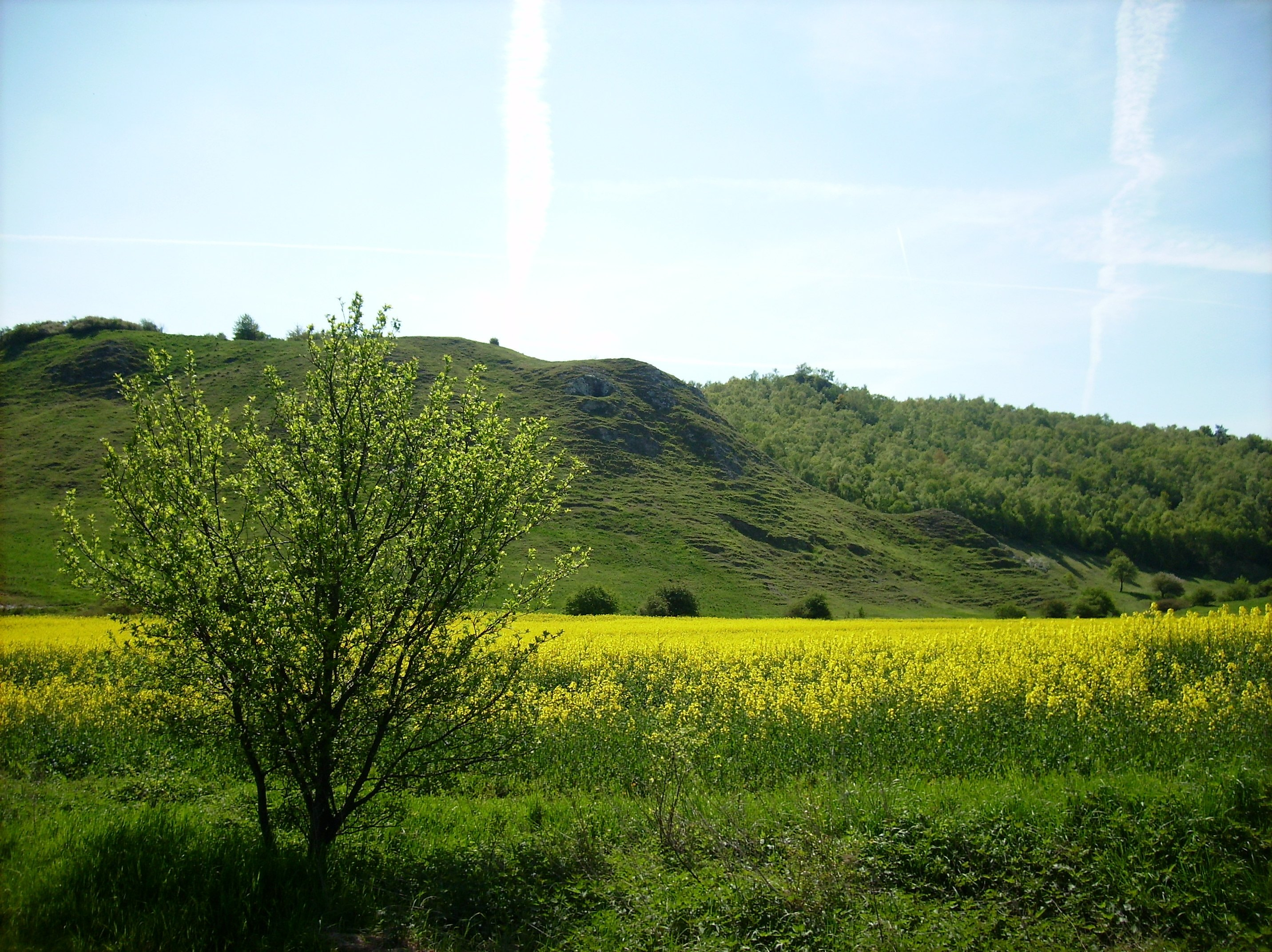 In the north of the "Badra Switzerland", a karst landscape to the west of the Kyffhäuser